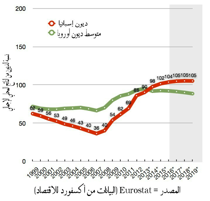 Spanish debt history since 1999. 1999-2011: Eurostat data: (see "General government gross debt") (see also: 2010-2015: Eurostat data: (latest update: October 2013) (2016-2017: Once Ernst & Young updates their forecasts, then we could use their data as well: 2015-2016 estimates from Ernst & Young using data from Oxford Economics ; (latest update: June 2012))